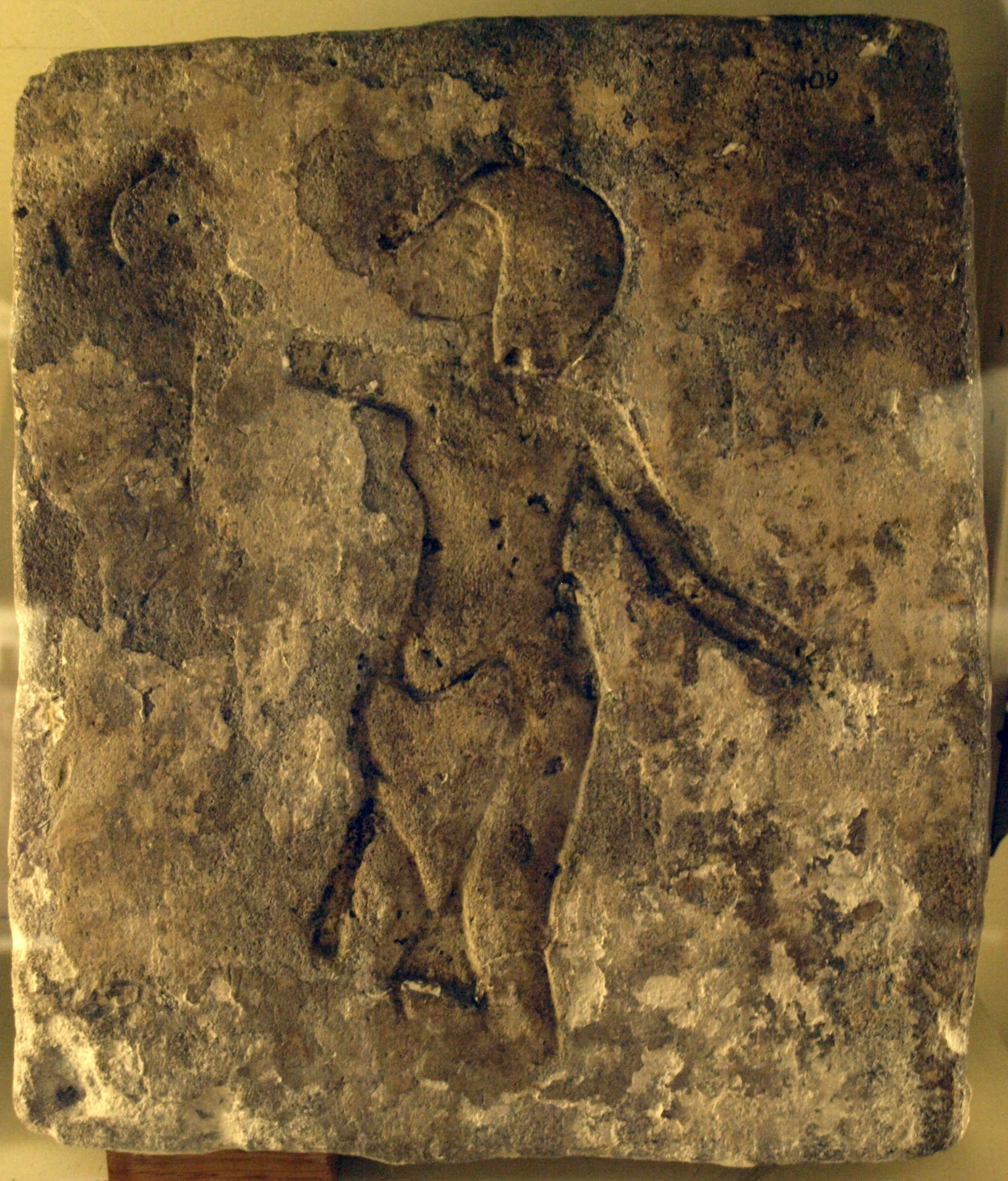 Relief of a man, likely once part of a group welcoming Ay. Originally from the Tomb of Ay at Tell el-Amarna. UC 409.